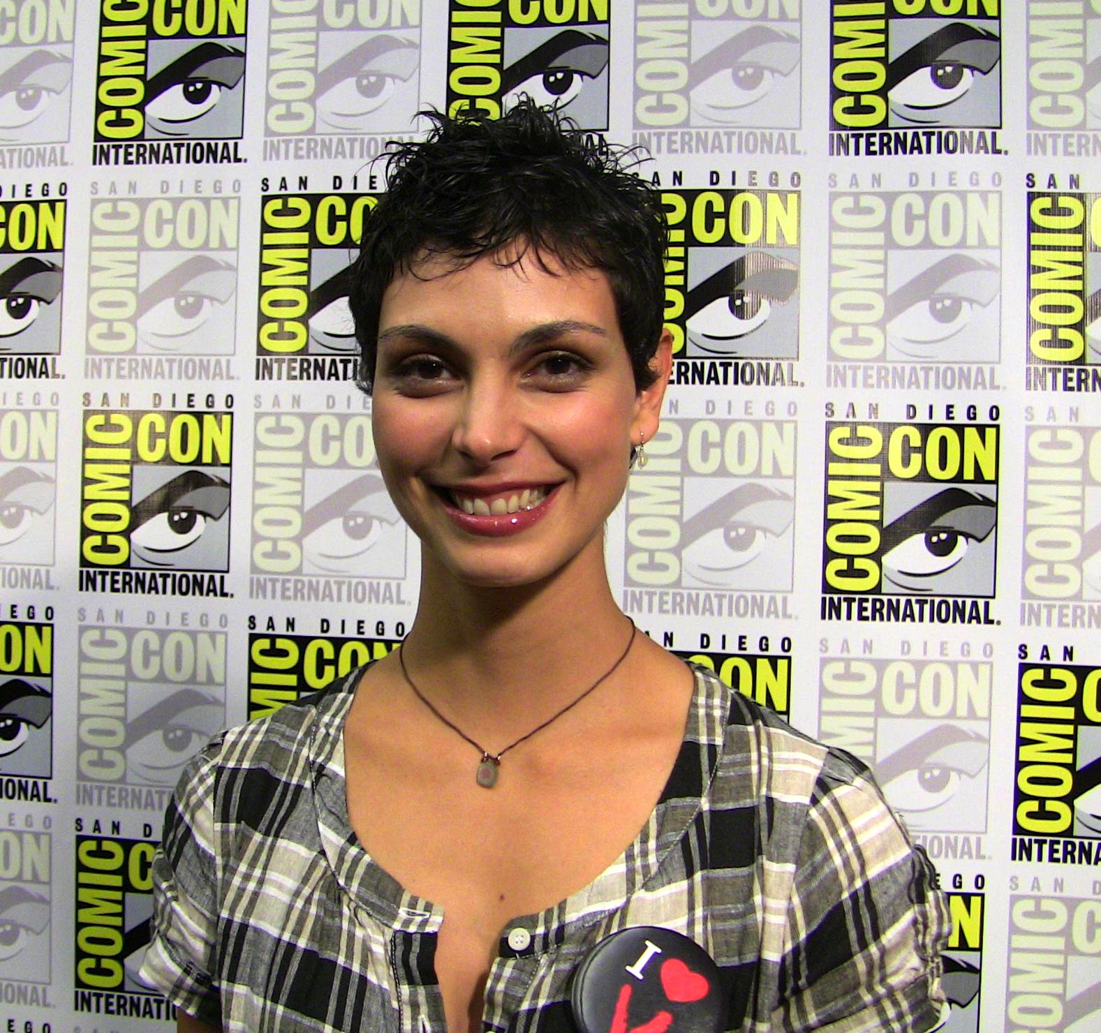 Actress Morena Baccarin – Comic-Con 2009 - V - San Diego, Calif. - July 25, 2009.